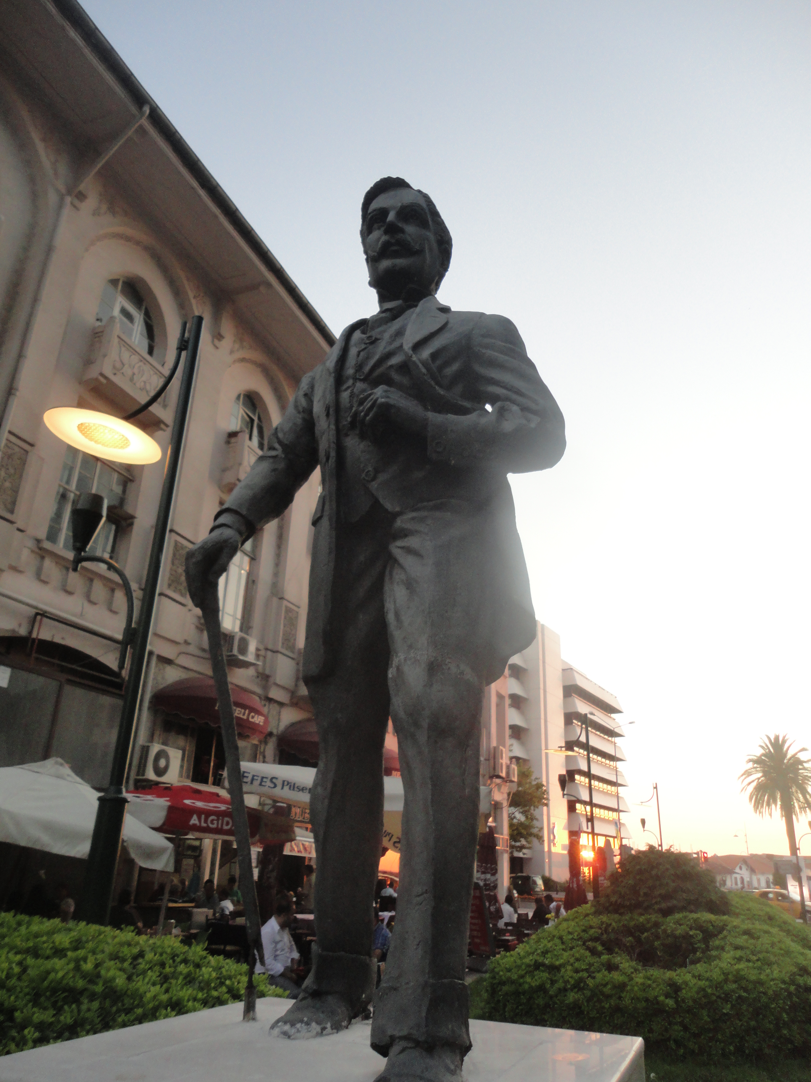 Mimar Kemaleddin Sculpture in Konak, Izmir . Sculptor: Eray Okkan